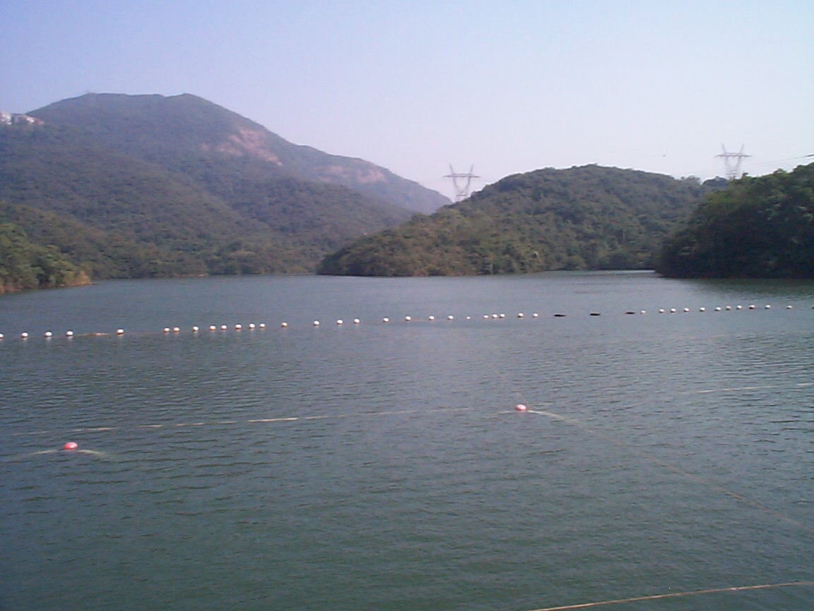 香港仔水塘 中文（香港）: 香港仔水塘